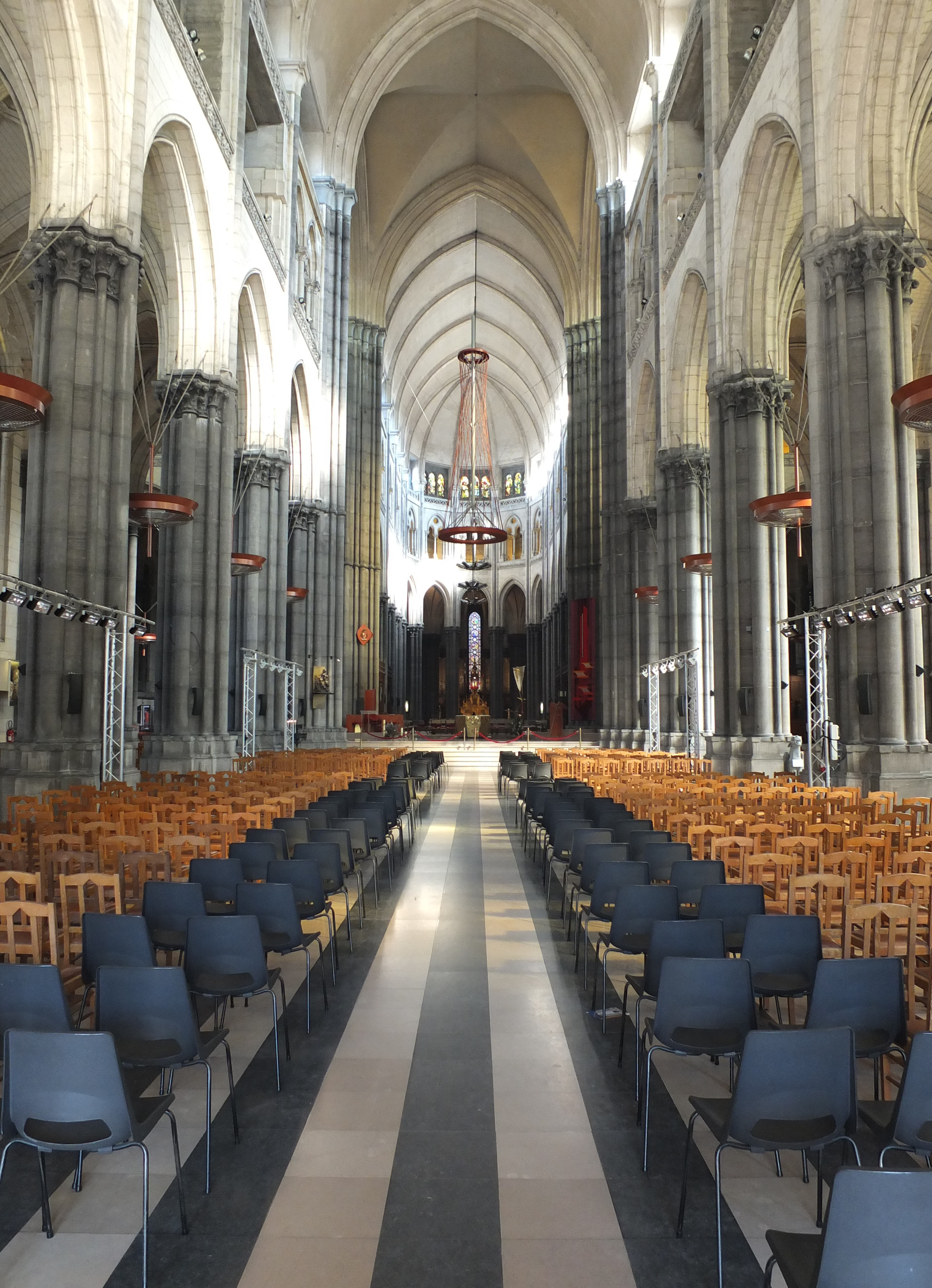 Lille Cathedral, the Basilica of Notre Dame de la Treille.